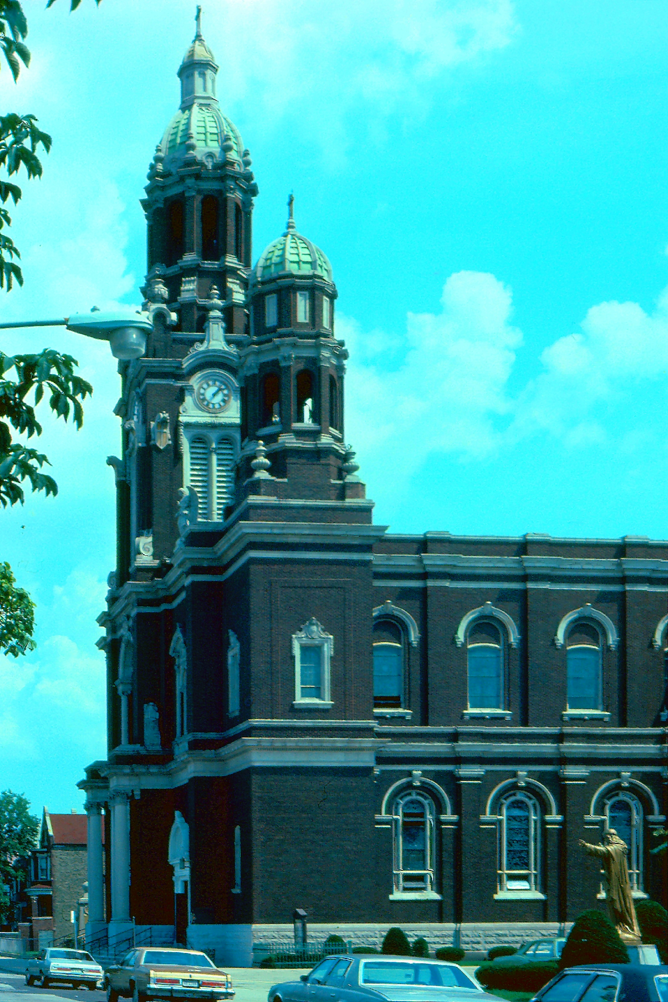 Chicago, St. Hyacinth Basilica